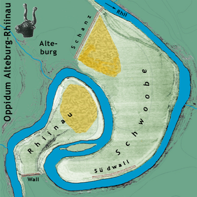 map if the Celtic oppidum Altenburg-Rheinau (Altenburg, Germany and Rheinau, Switzerland)